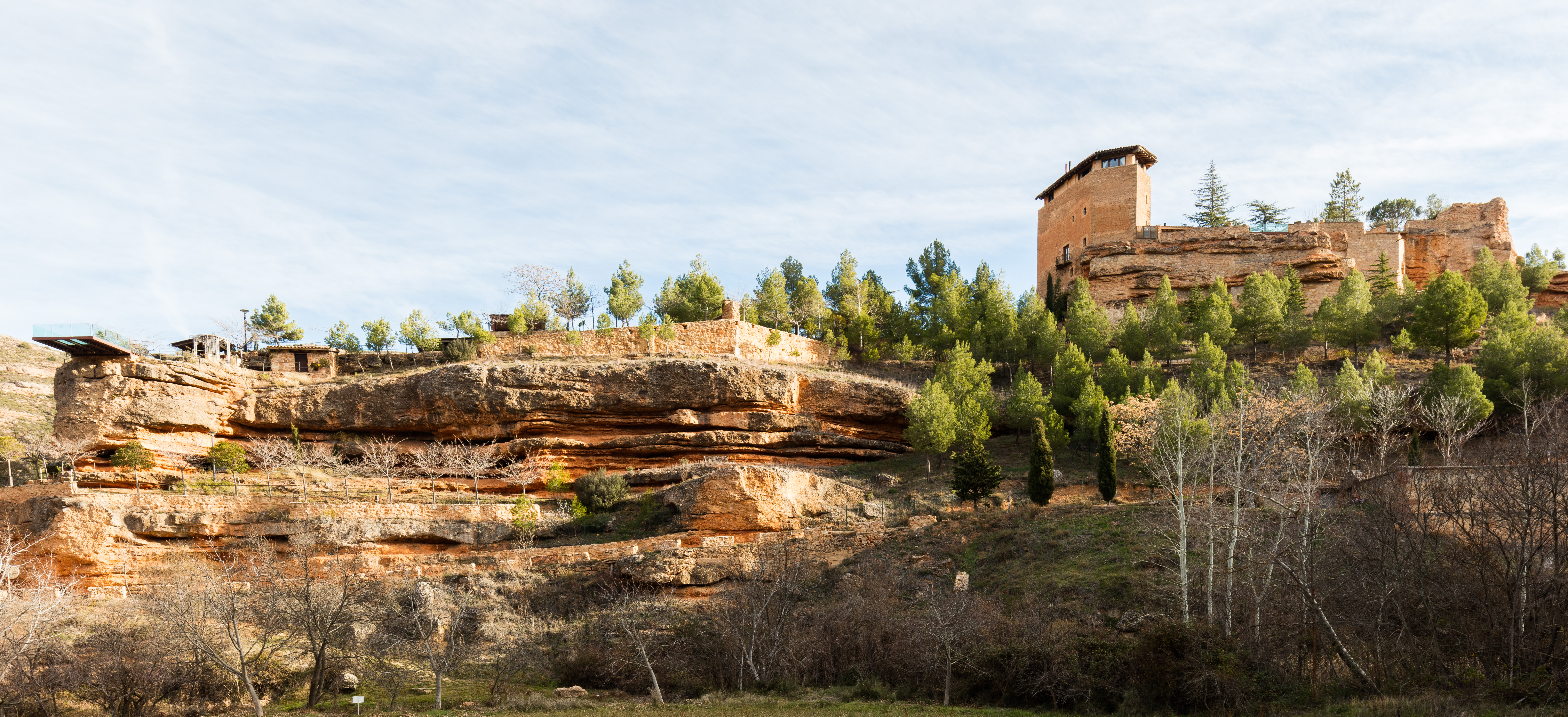 Castle of Somaén, Soria, Spain